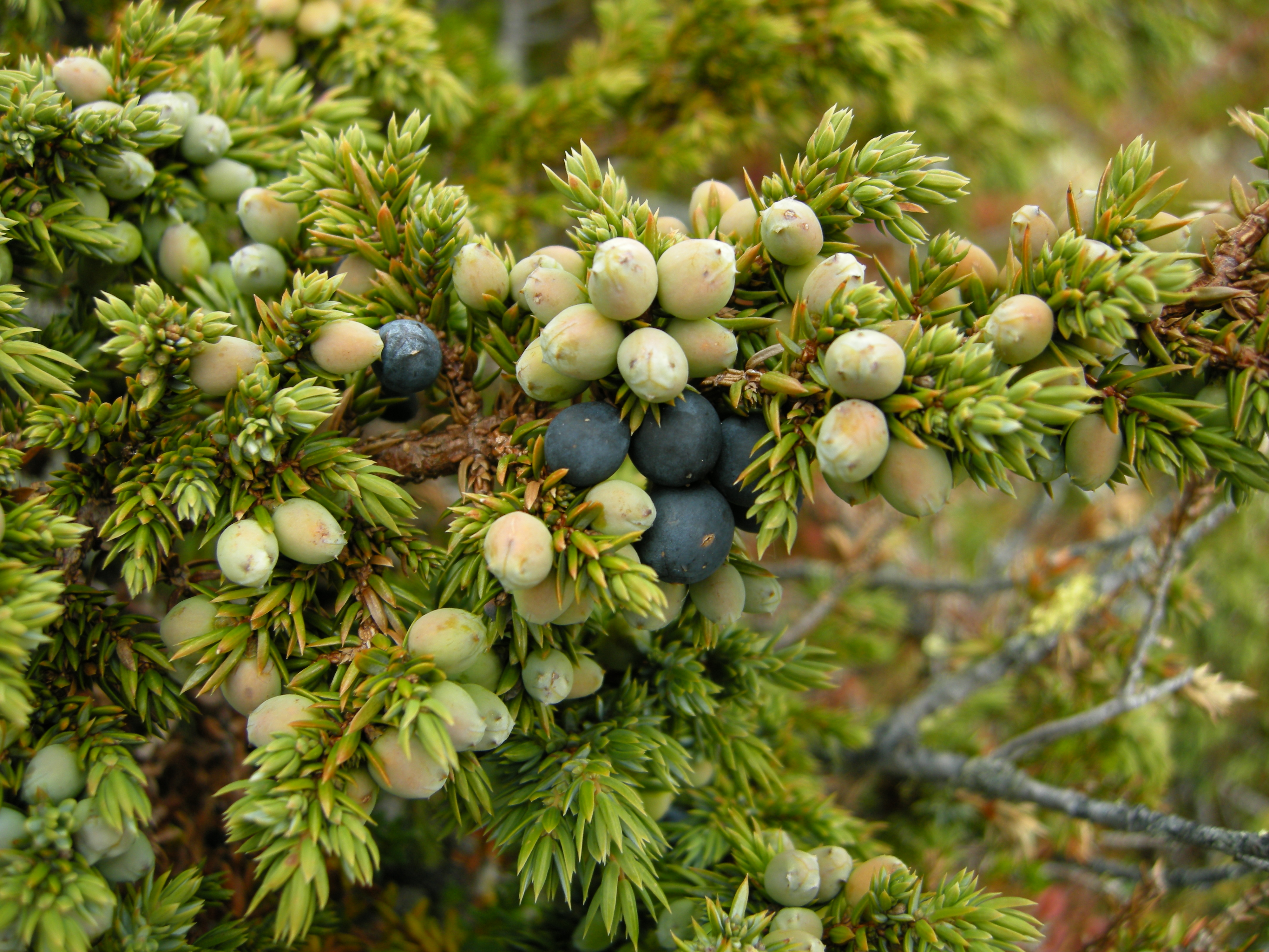 Alpine Juniper - Juniperus communis subsp. alpina - Rondane, Norway